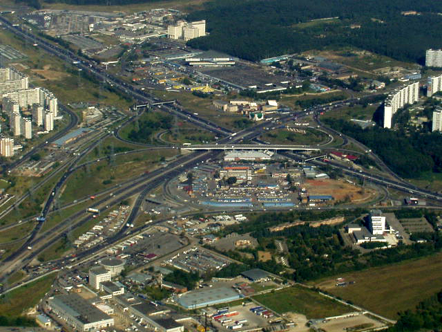 Interchange of MKAD (upper left to right), Varshavskoye and Simferopolskoye freeways in southern Moscow